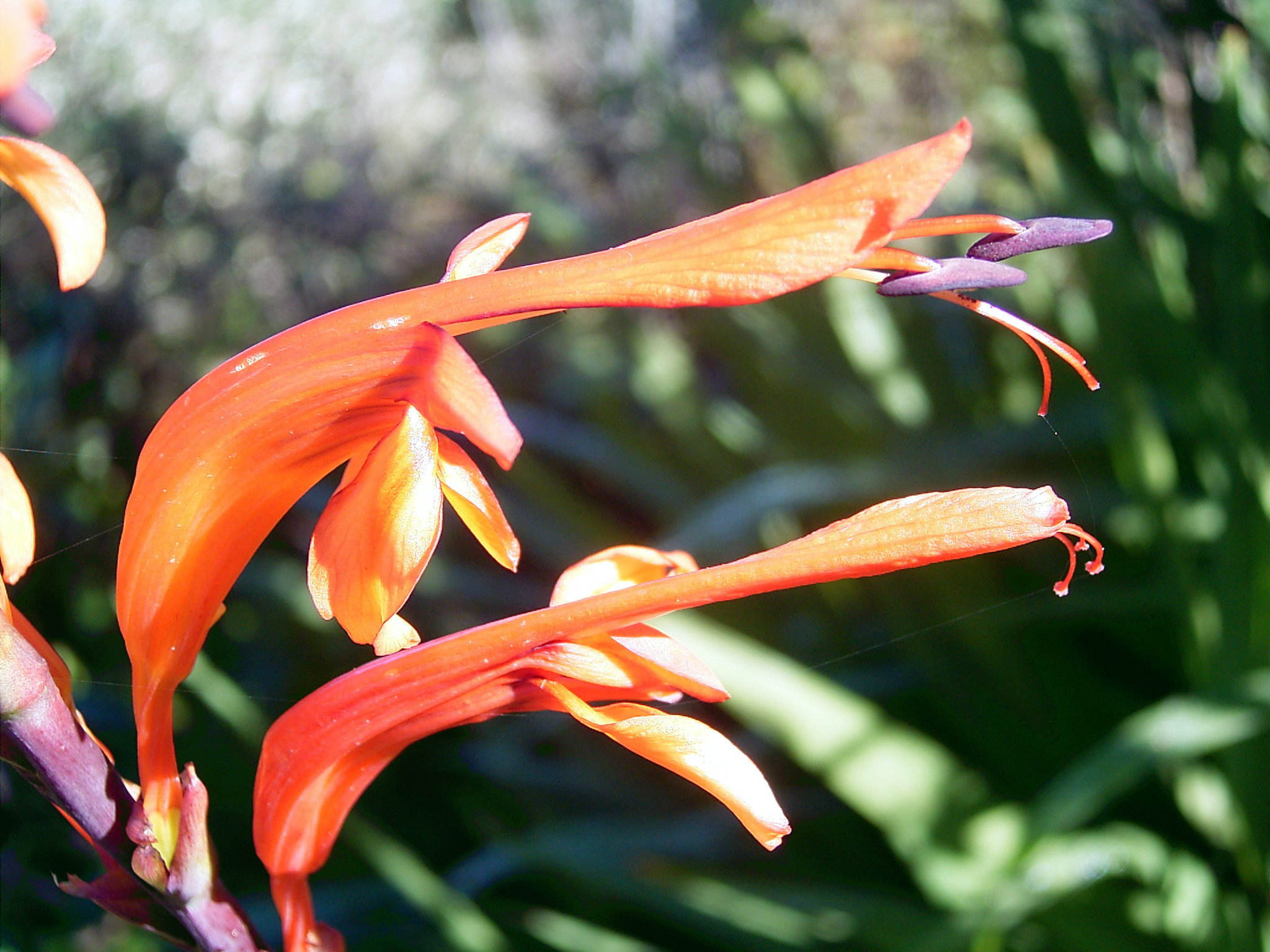 Chasmanthe aethiopica growing in Garafía, La Palma, Canary Islands